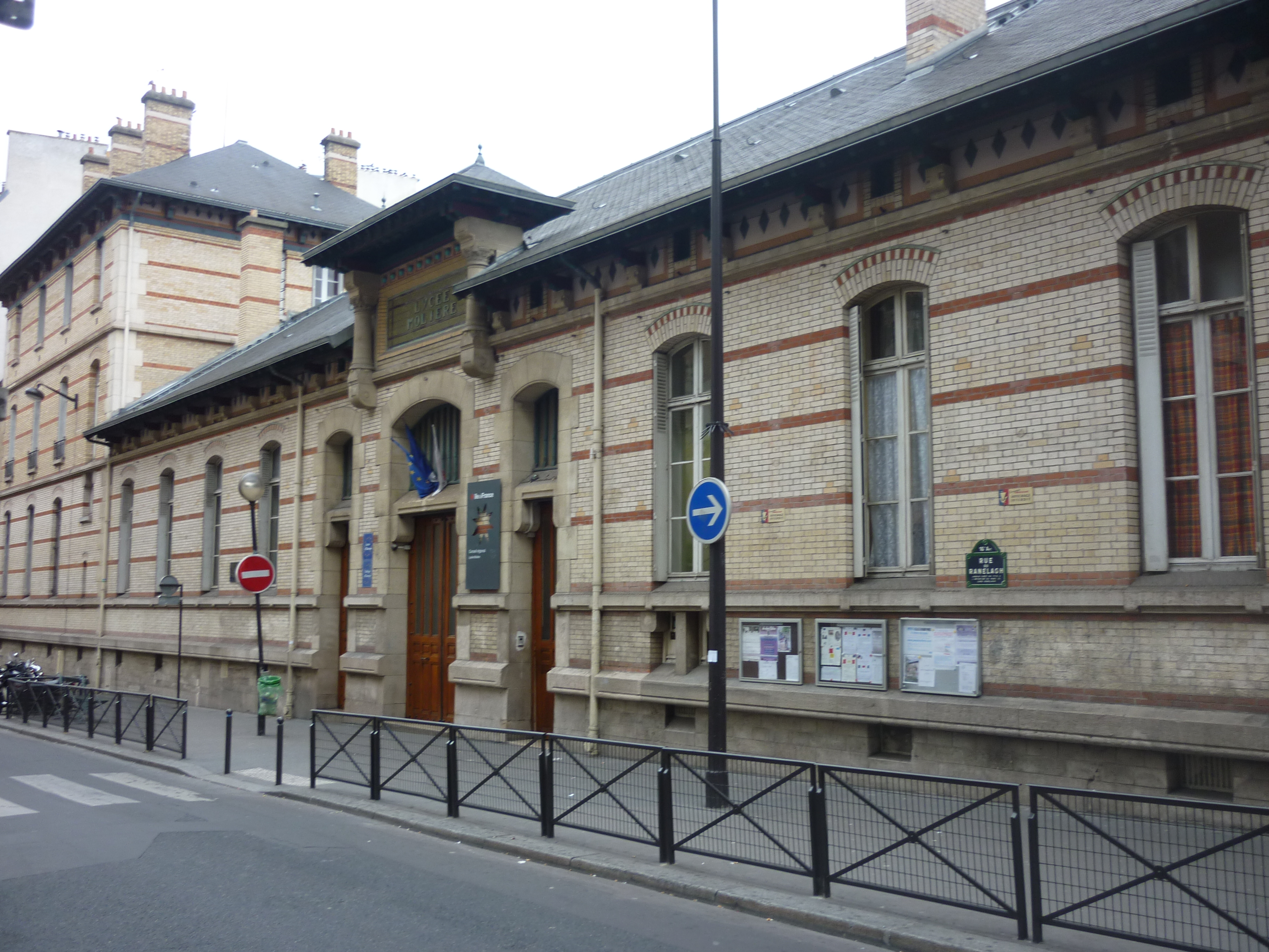 Front side of the lycée Molière, in Paris, France